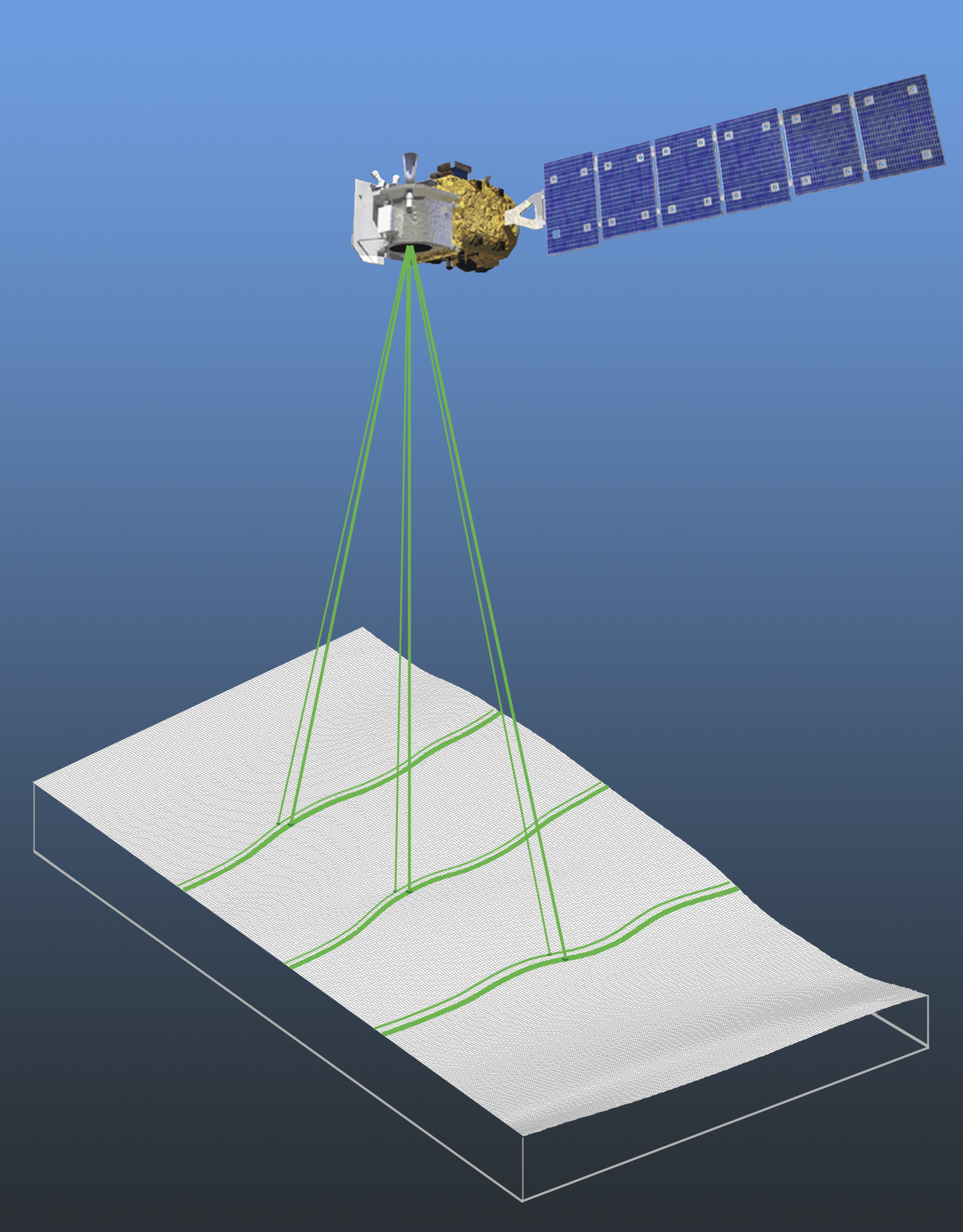 This is an artist's version of the multi-laser ICESat-2 satellite